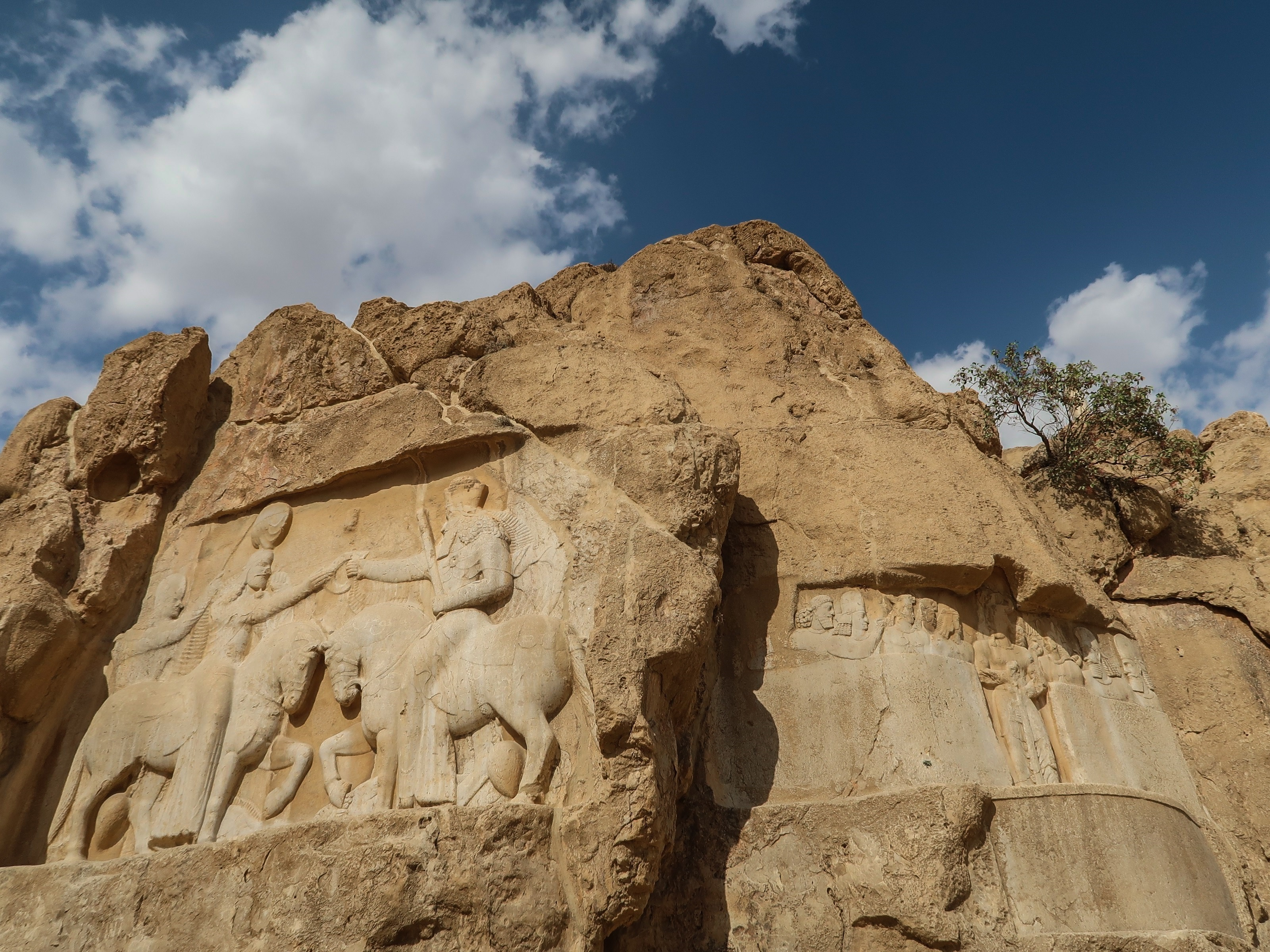 Rock reliefs at Naqsh-e Rustam necropolis (Iran): Investiture of Ardashir I (left), and Audience of Bahram II.